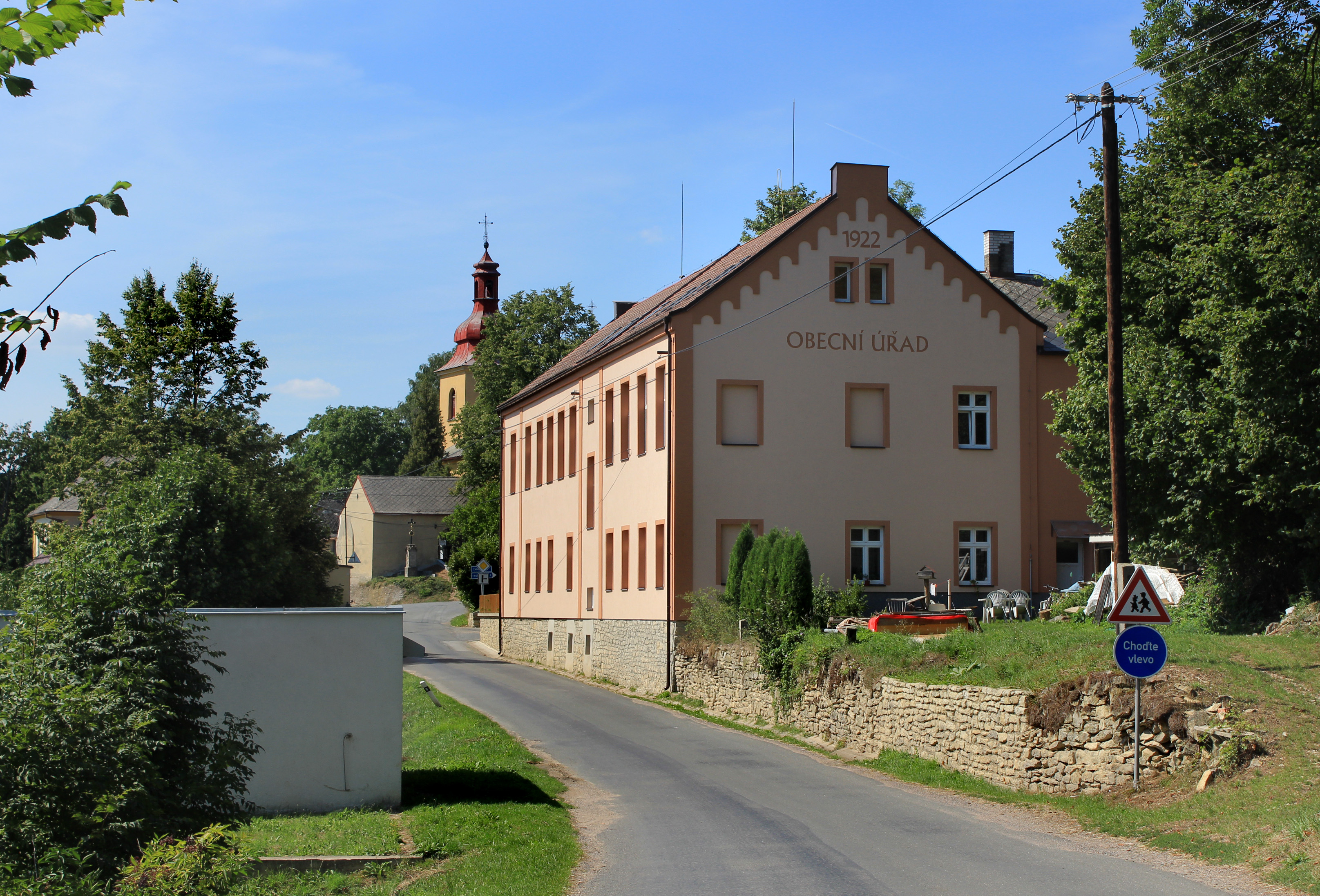 Munucipal office in Karle, Czech Republic.